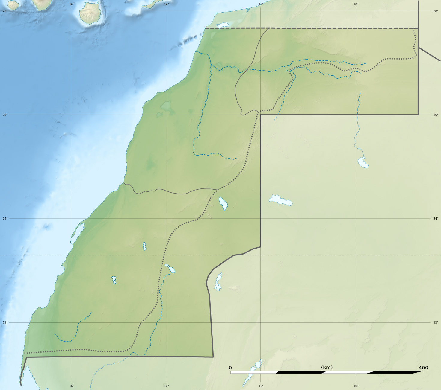 Blank physical map of Western Sahara, for geo-location purposes.